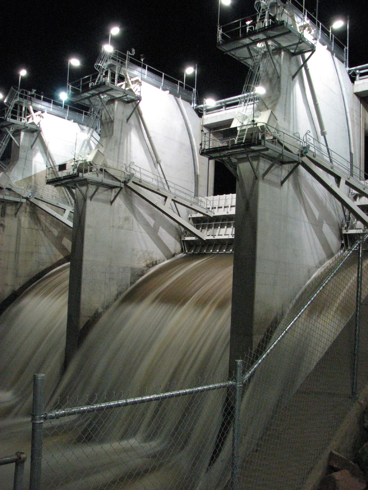 Ross River Dam at night, Floodgates are full open.